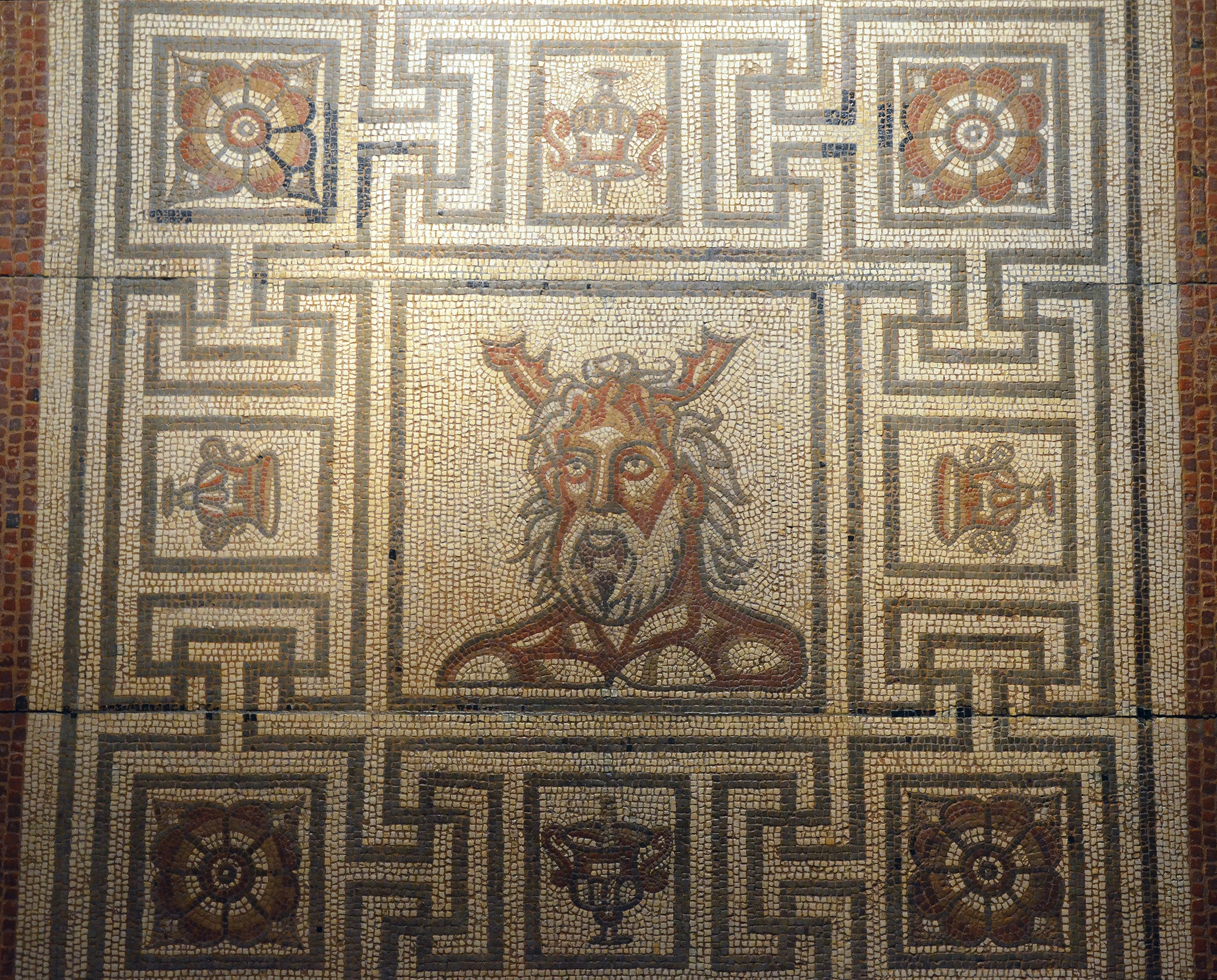 The mosaic is known as the sea god mosaic – the face on it could be the god Oceanus – or it might be Cerunnos the god of the woods. It was made around AD160-90. This mosaic is on display in Verulamium Museum. It was found in the same Roman town house as the mosaic in the hypocaust room.